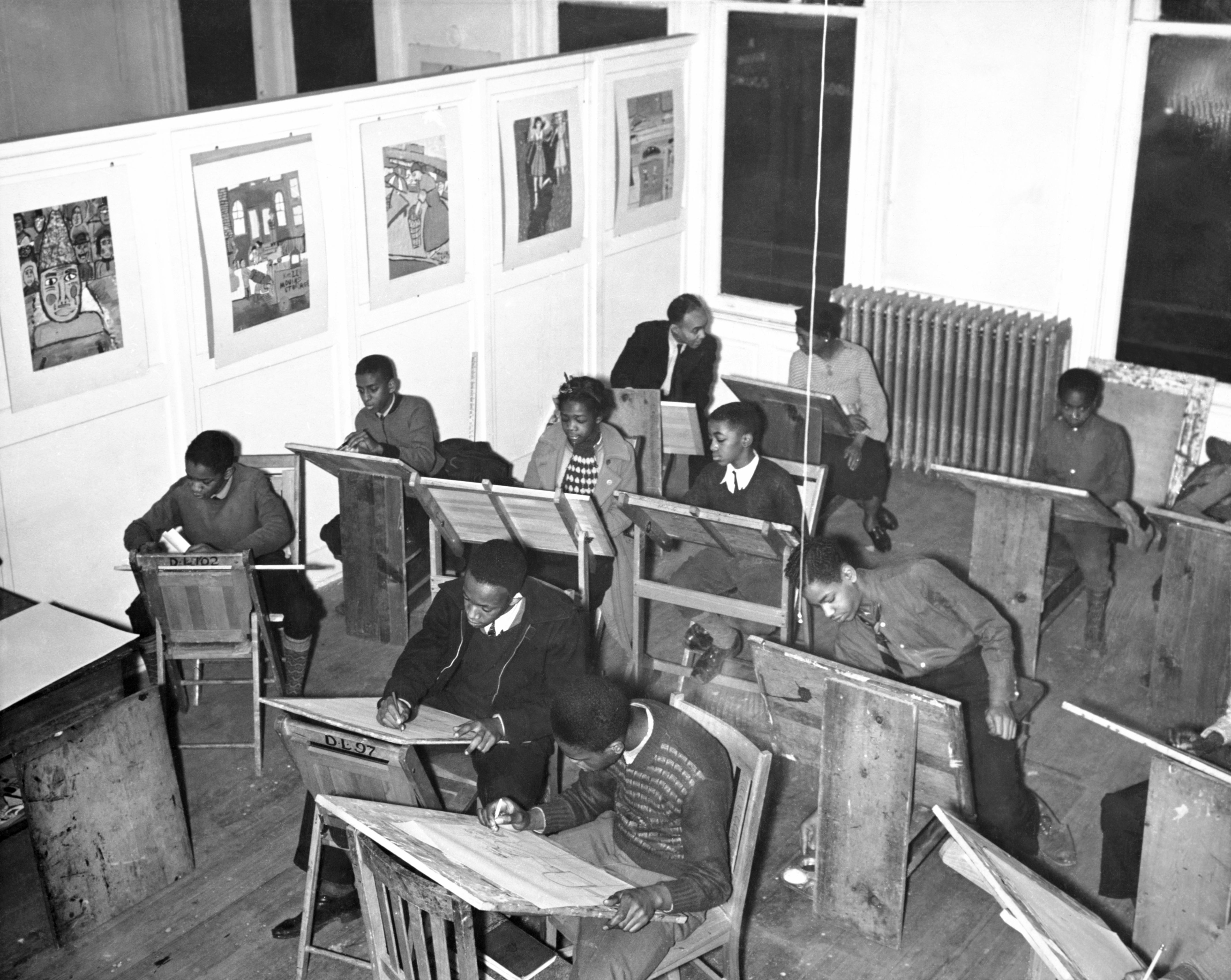 Photograph of students in a free art class at the Harlem Community Art Center, 290 Lenox Avenue, New York City. Photograph shows a group of elementary to high-school aged children in a class sponsored by the Federal Art Project. Some of their works are hanging on a wall in the classroom.